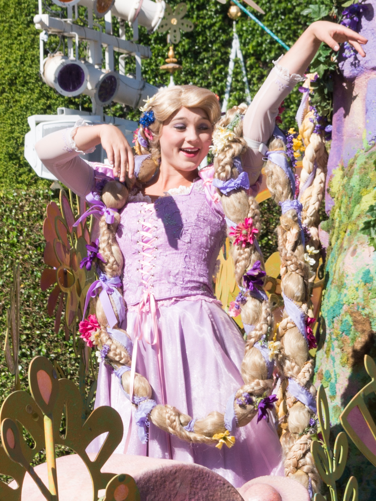 Rapunzel shows off her hair in Mickey's Soundsational Parade at Disneyland.